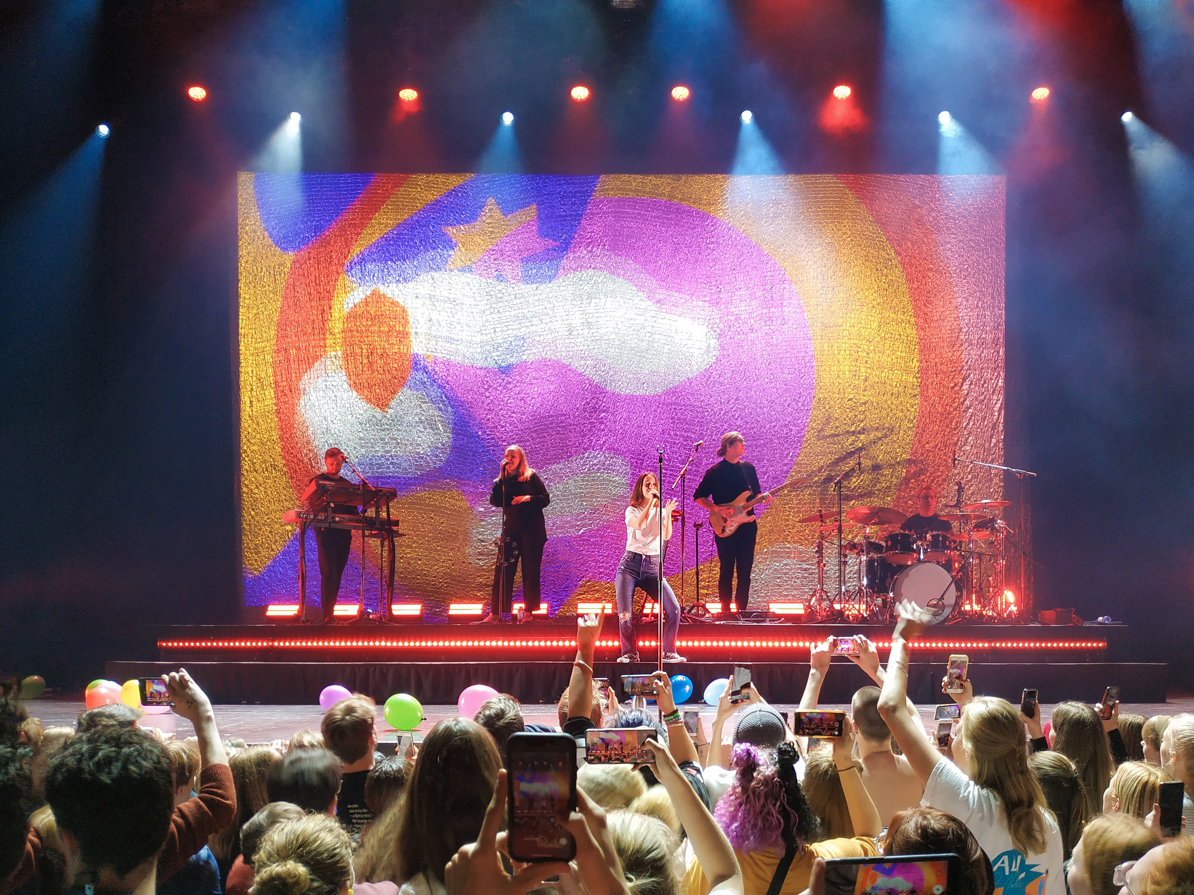 Sigrid performs on the Ronda stage in TivoliVredenburg, Utrecht, 2019.